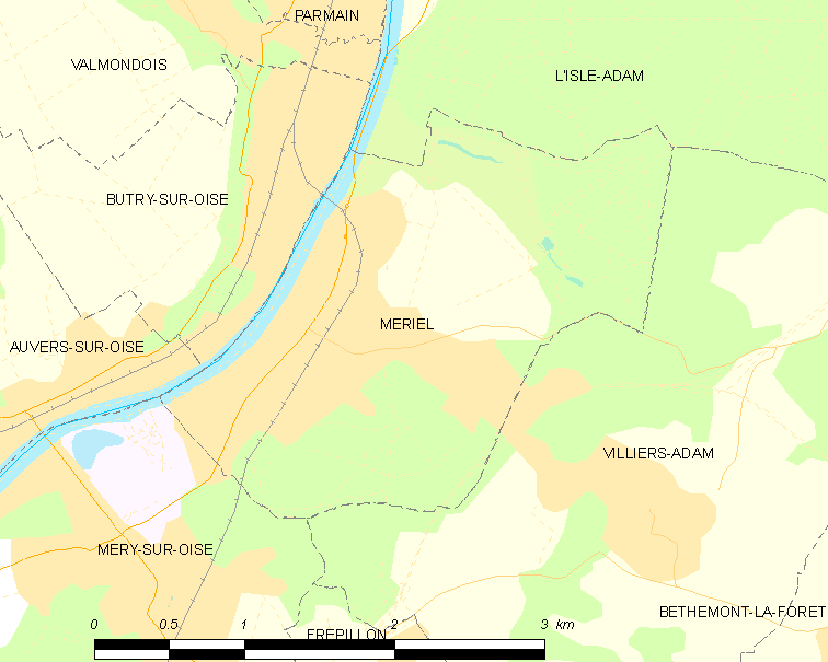 Map of French municipality Mériel